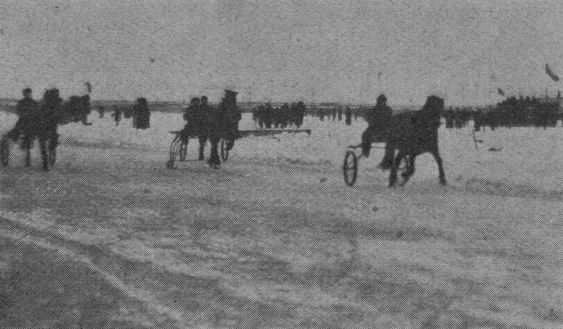 Harness racing in the 1910 vyborg Winter Games, Finland.